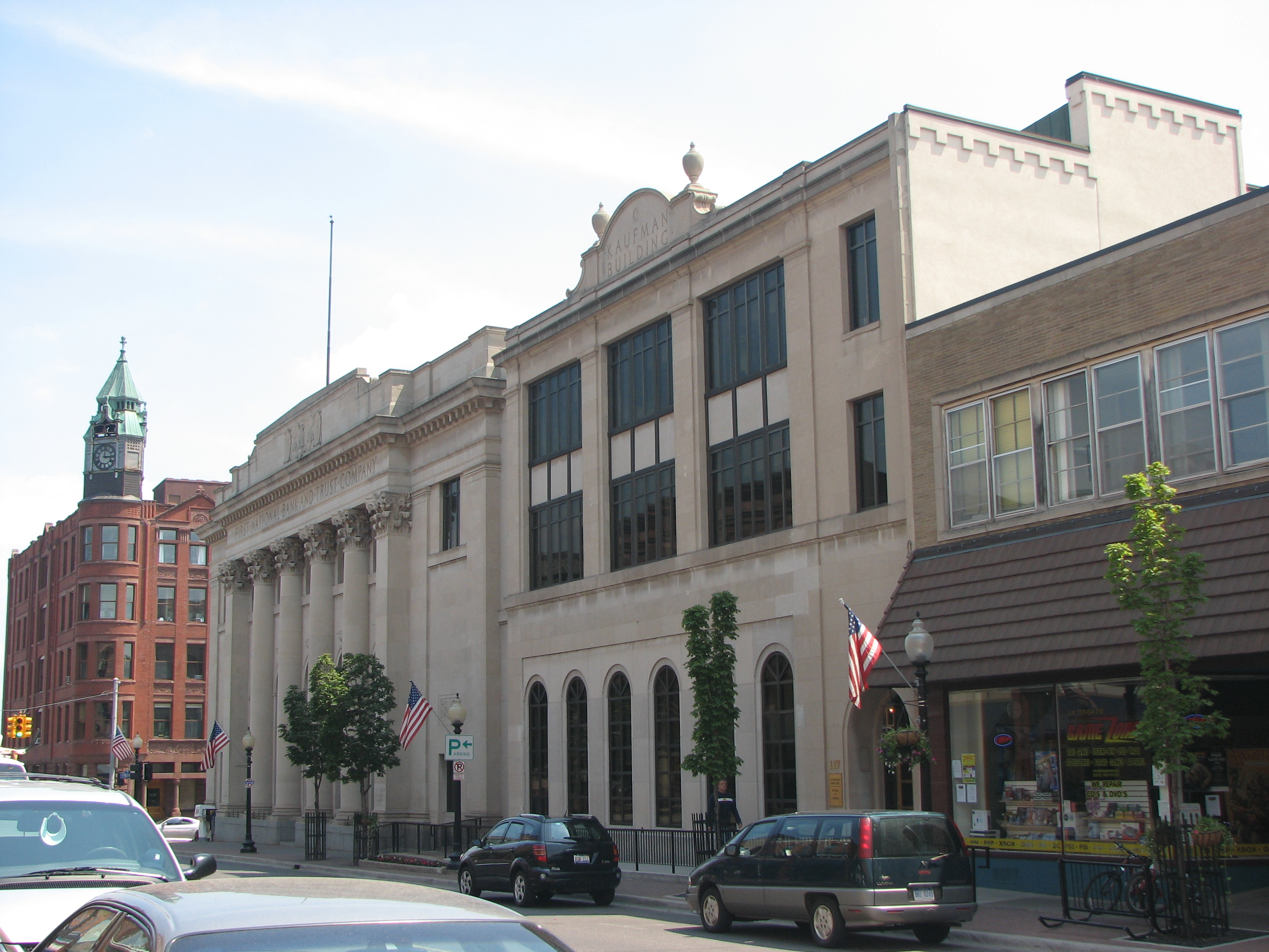 from left to right: the Old State Savings Bank Building (in red sandstone), the Wells Fargo Bank Main Branch (combining the First National Bank of Marquette Building and the Kaufman Building) and various store fronts along Washington Street, Marquette, Michigan, US